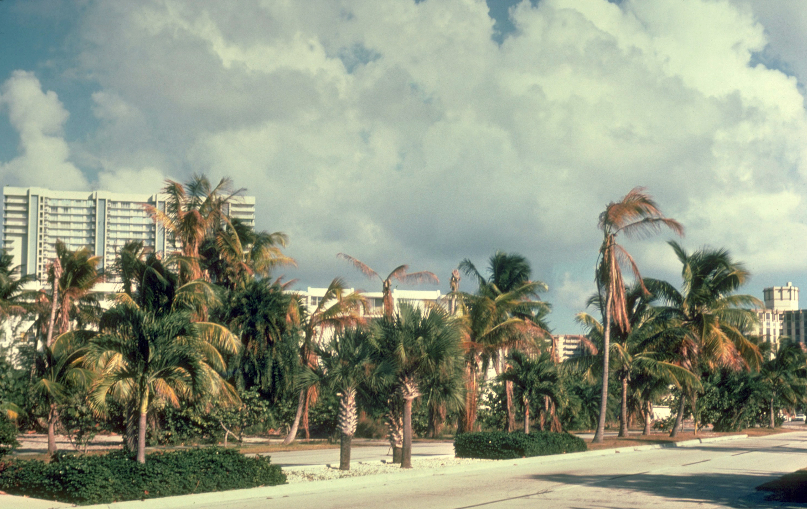 Coconut palms affected by lethal yellowing phytoplasma